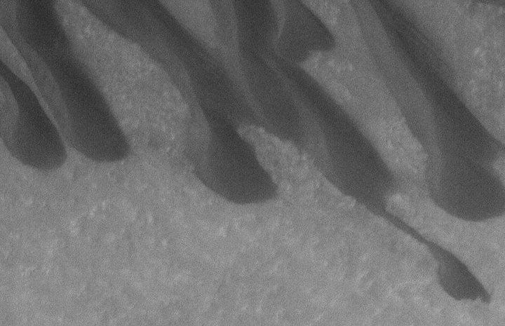 MGS view of dunes in Brashear Crater.